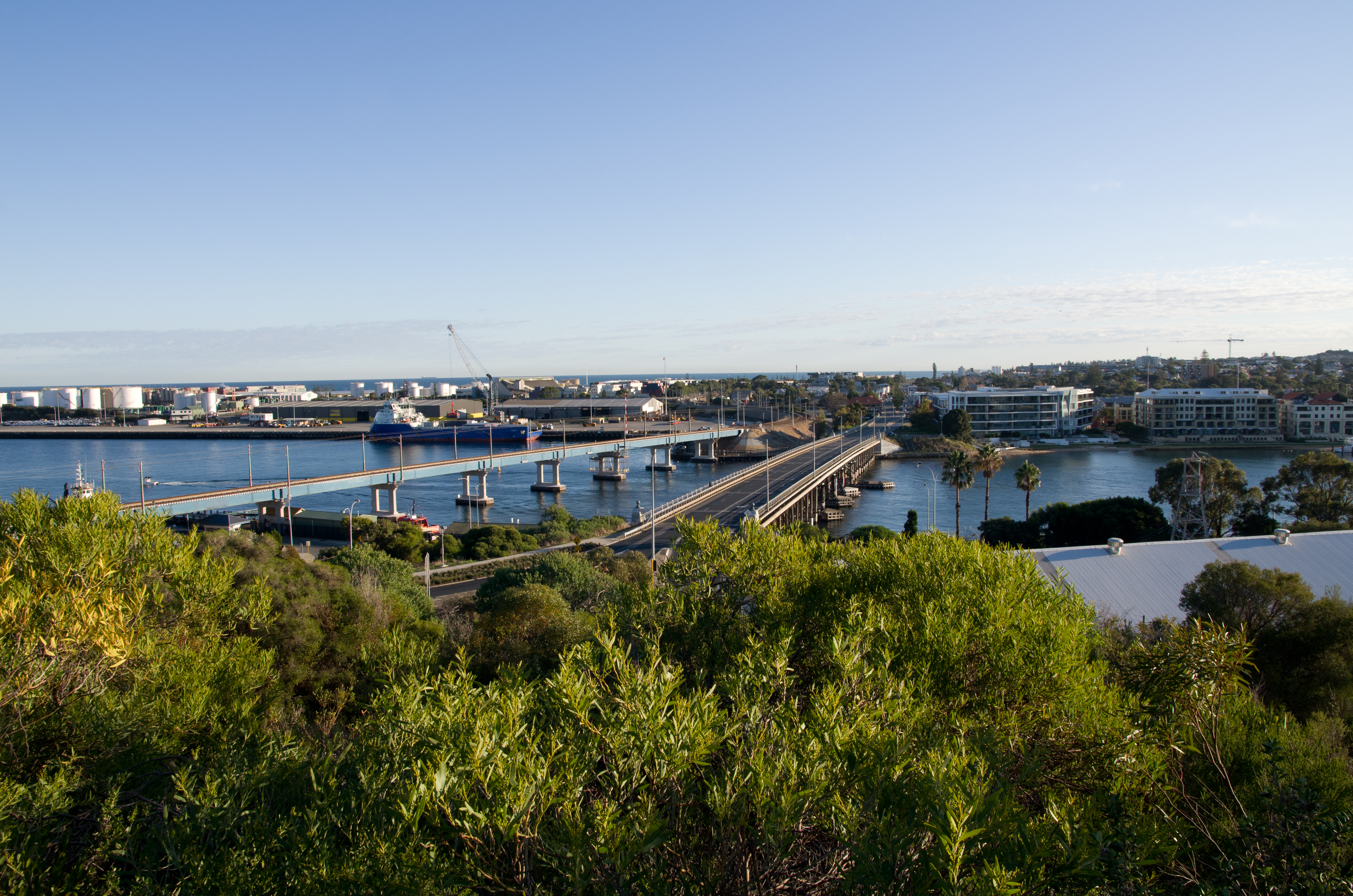 rail bridge and Queen Victoria Bridge from Cantonment hill